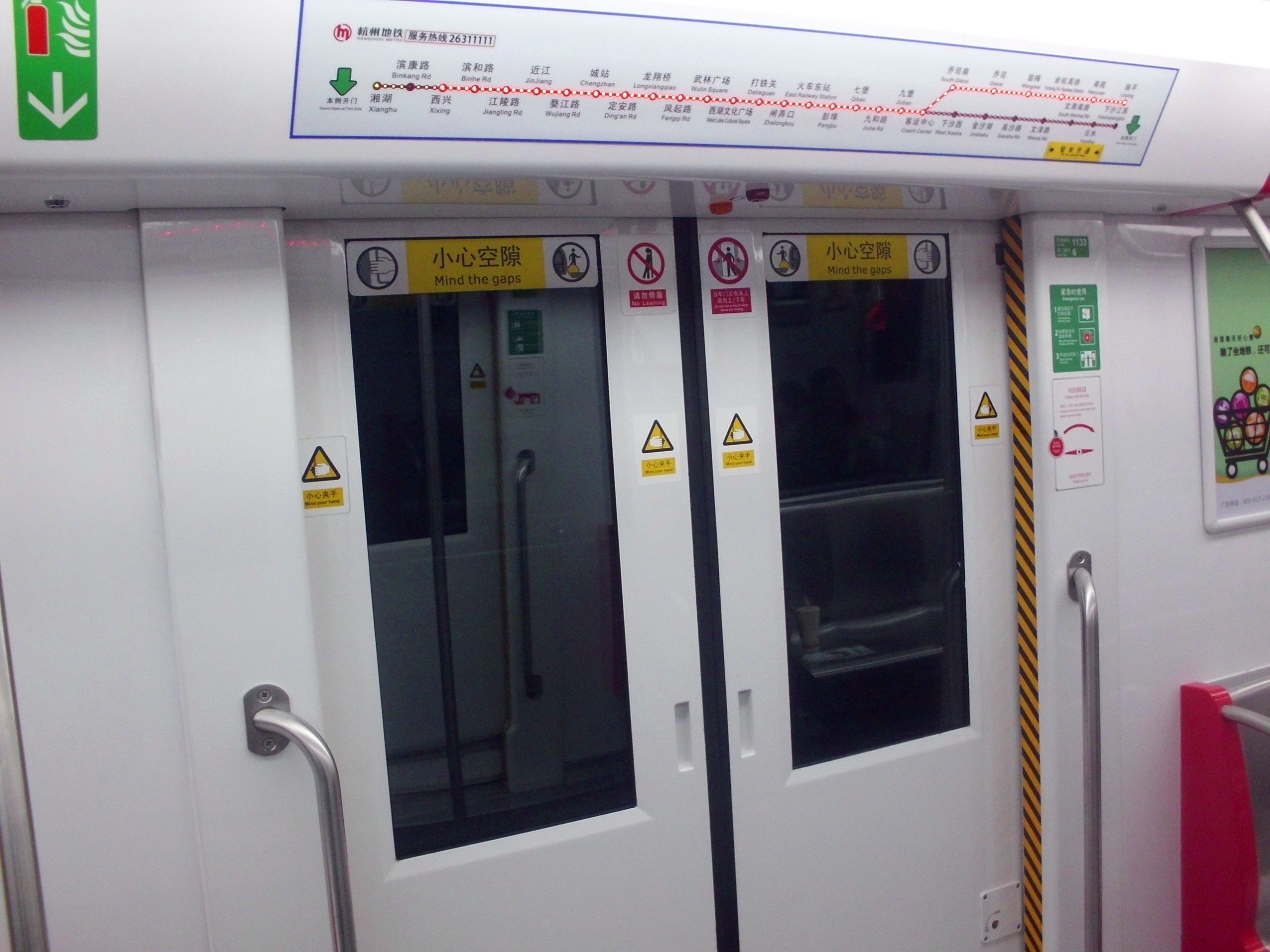 coach of Line 1, Hangzhou Metro